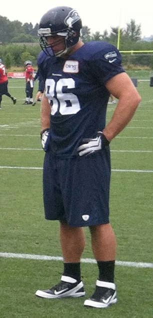 Seattle Seahawks players Cooper Helfet (#43) and Zach MIller (#86) watch as an unidentified player goes through a drill at training camp in Virginia Mason Athletic Center, Renton, Wash. on August 7, 2012.